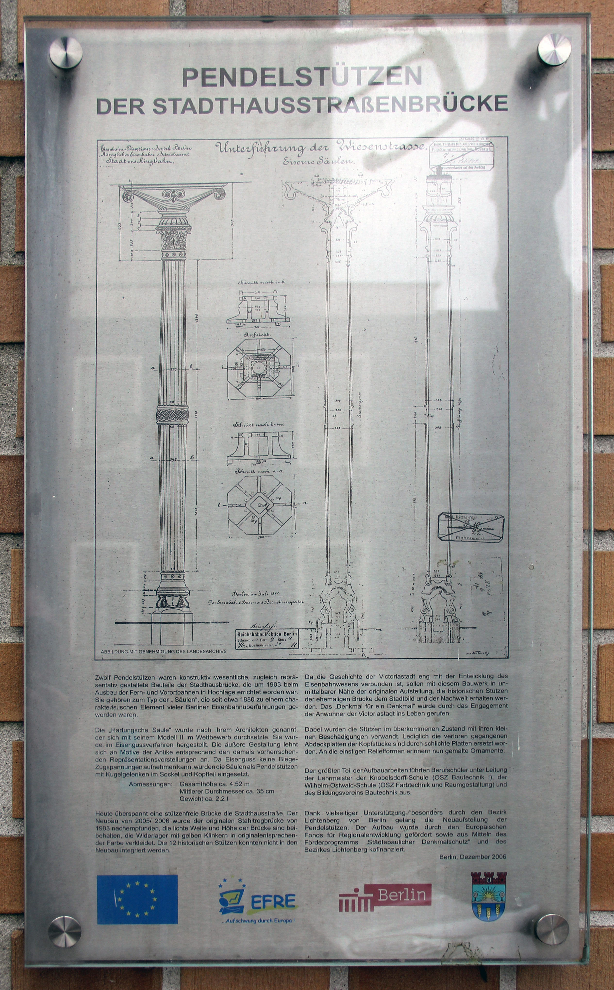 Memorial plaque, Hartungsche Säule, Stadthausstraße, Berlin-Rummelsburg, Germany